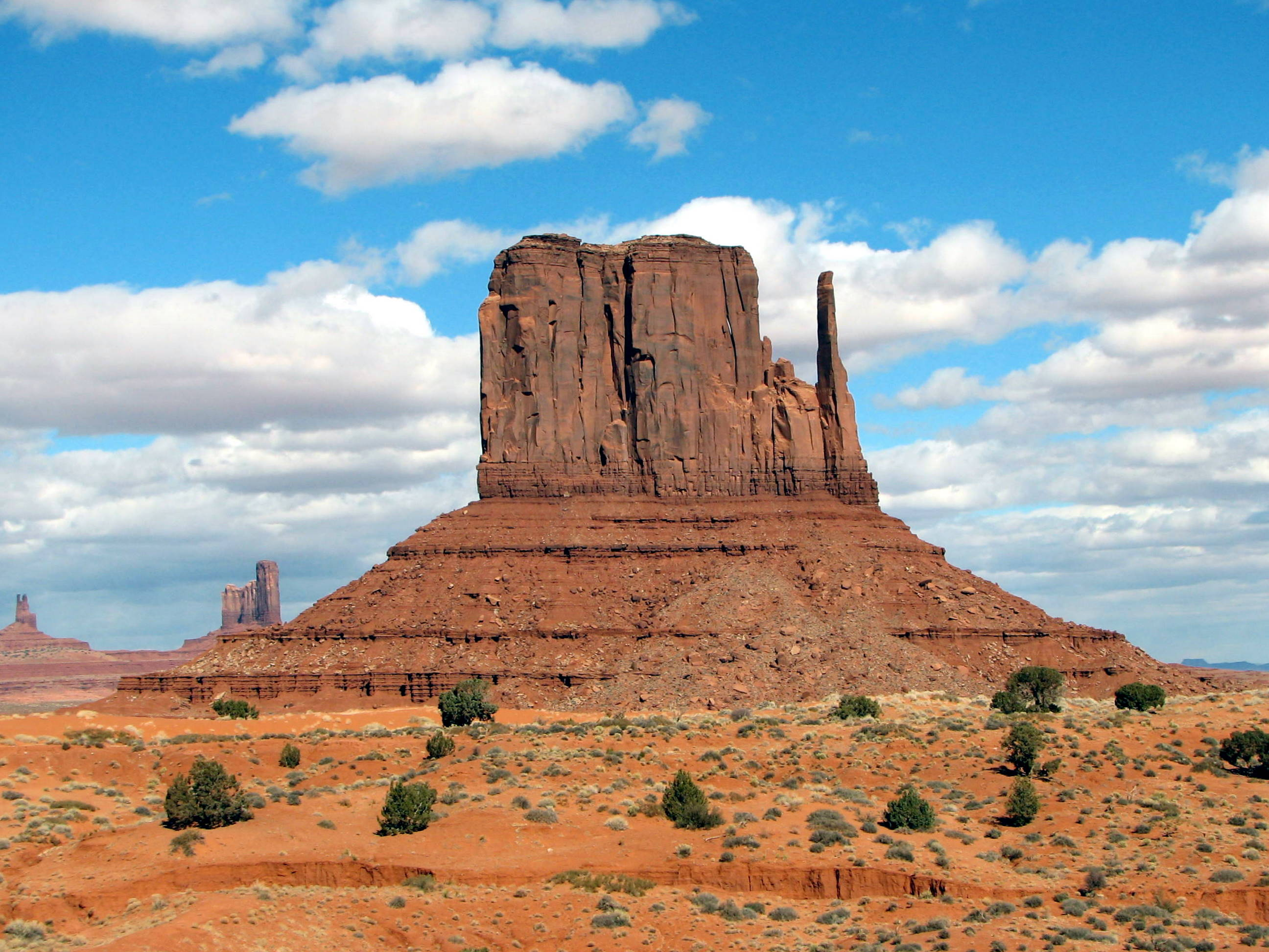 Monument Valley: West Mitten, located in northern Arizona and southern Utah, USA